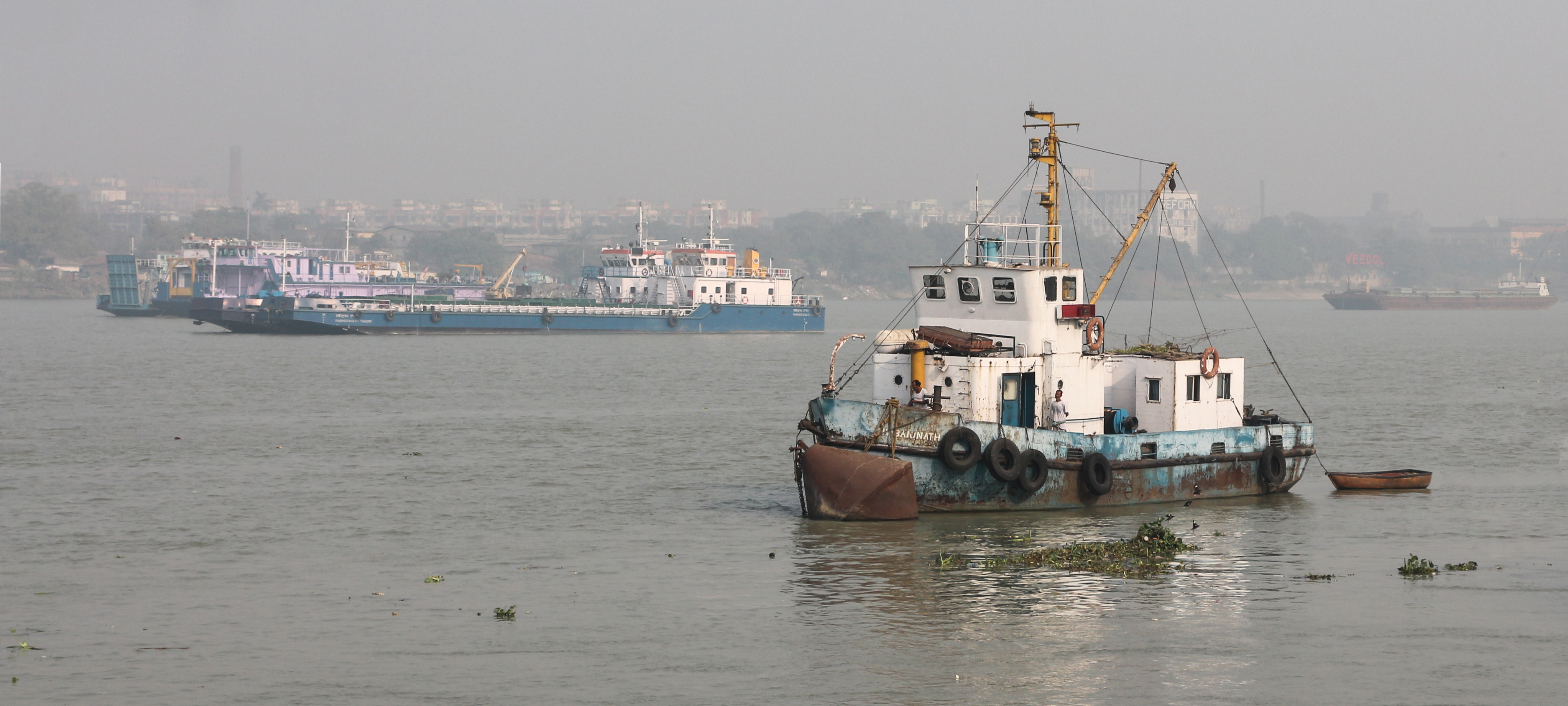 Boats on the Hooghly River, Kolkata, India